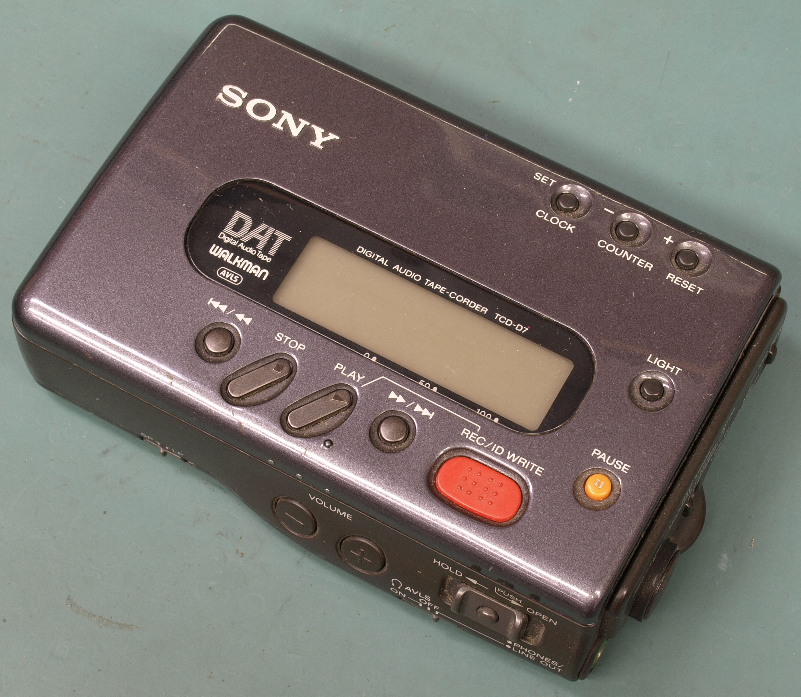 Original Sony DAT Walkman